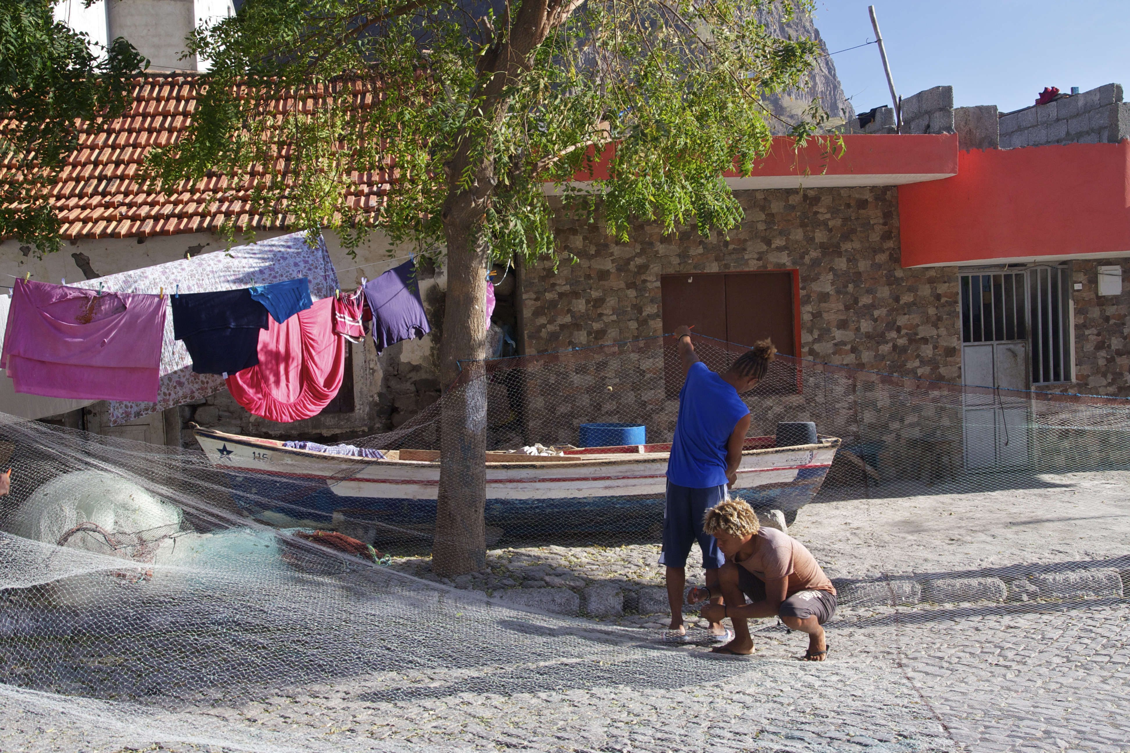 This is an image with the theme "Africa on the Move or Transport" from: Cape Verde